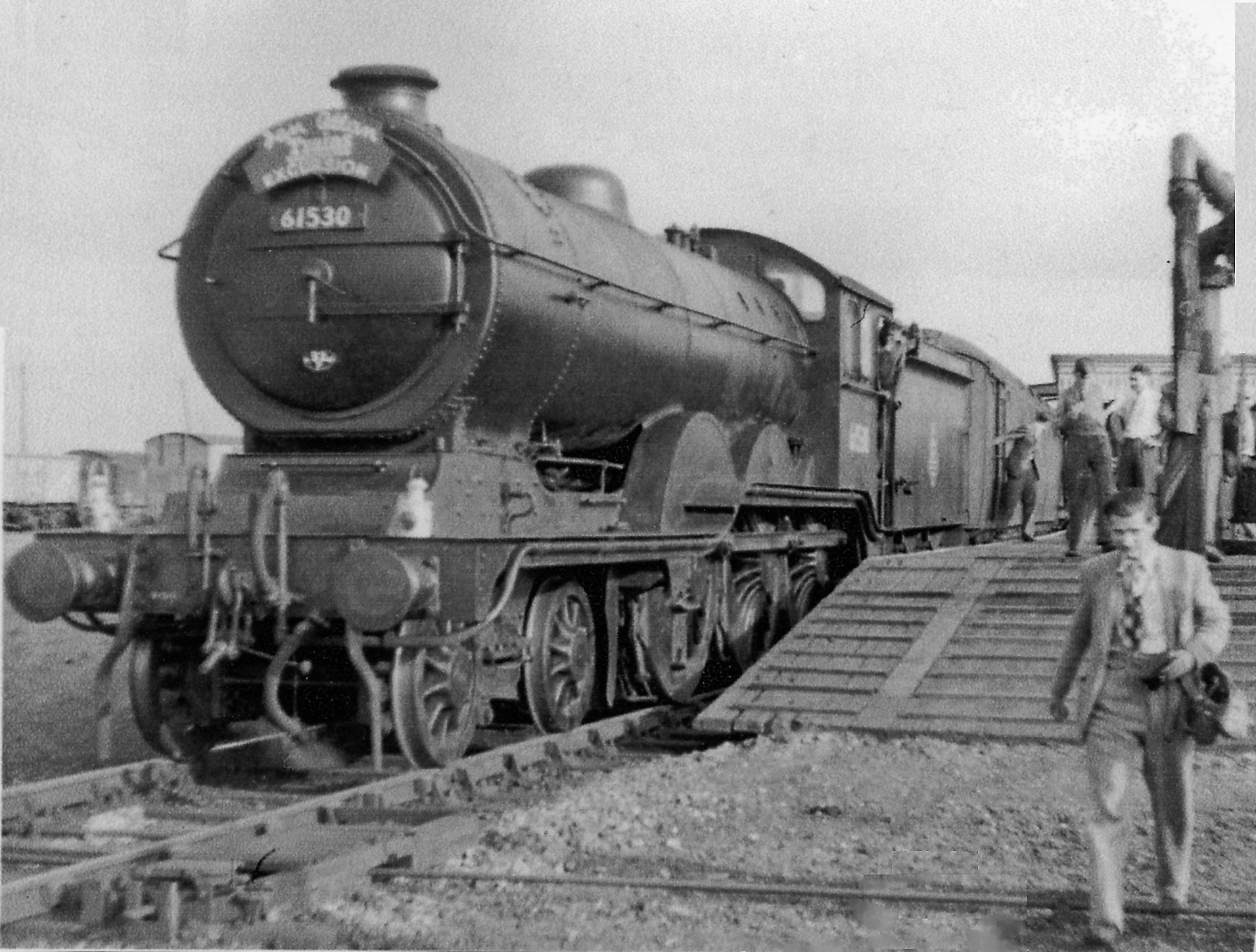 Ex-GE B12/3 4-6-0 on Rail Tour at South Lynn. The 'Trains Illustrated' Fenland Rail Tour in September 1954 (for details see TF0645 : A1 Pacific heads Trains Illustrated Fenland Rail Tour at Sleaford), was headed by B12/3 No. 61530 (built 11/14 as a B12/1, rebuilt 5/38, withdrawn 11/59) from Melton Constable and continued on to Spalding.